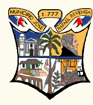 Coat of arms of Jose Rafael Revenga municipality. Aragua state, Venezuela